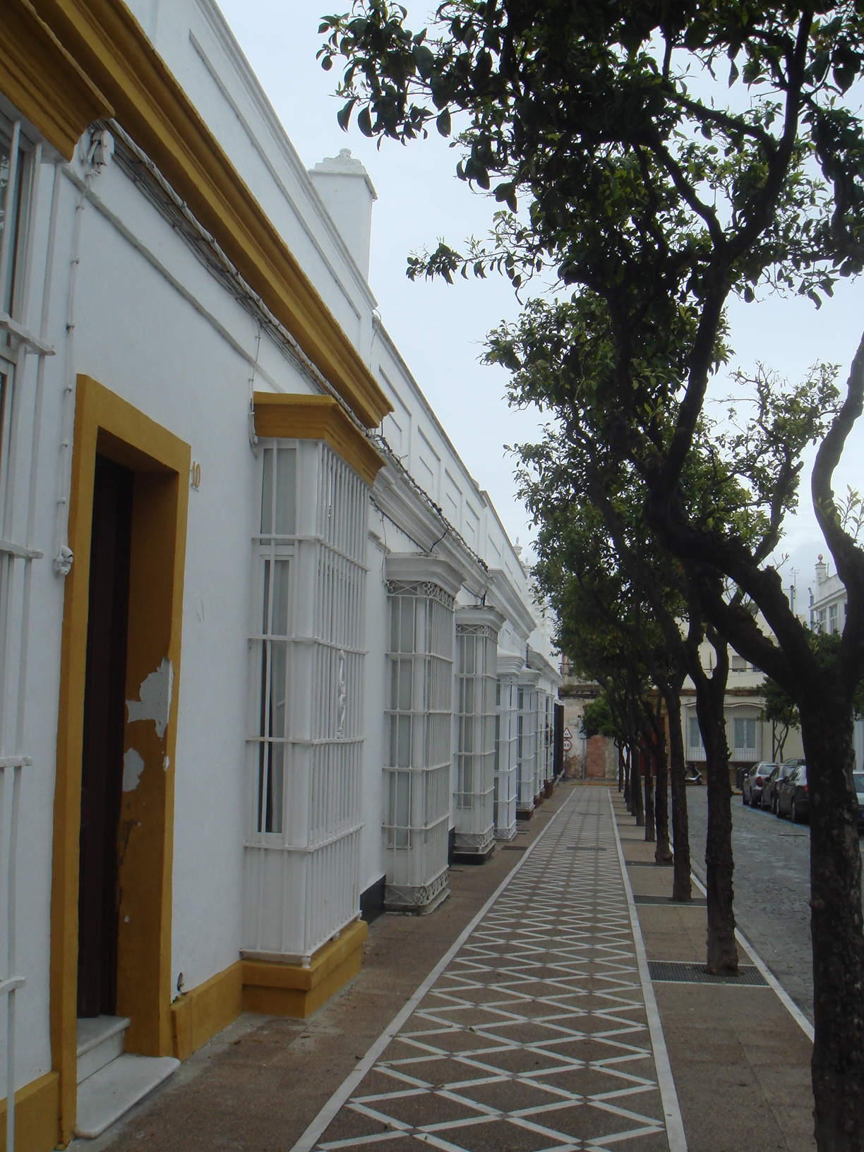 Maestro Portela Street, San Fernando, Cádiz, Spain.